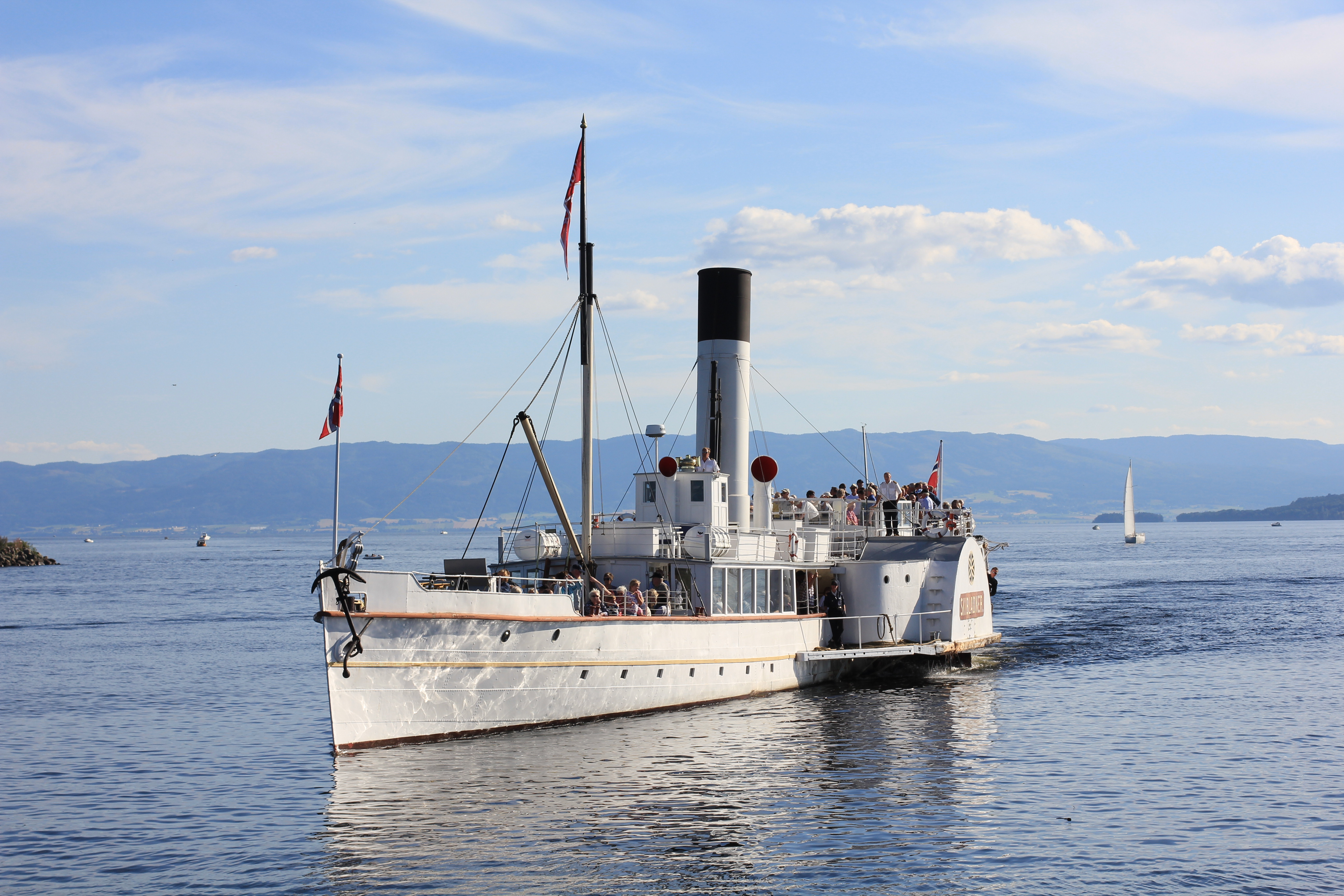 Skibladner arriving Hamar.